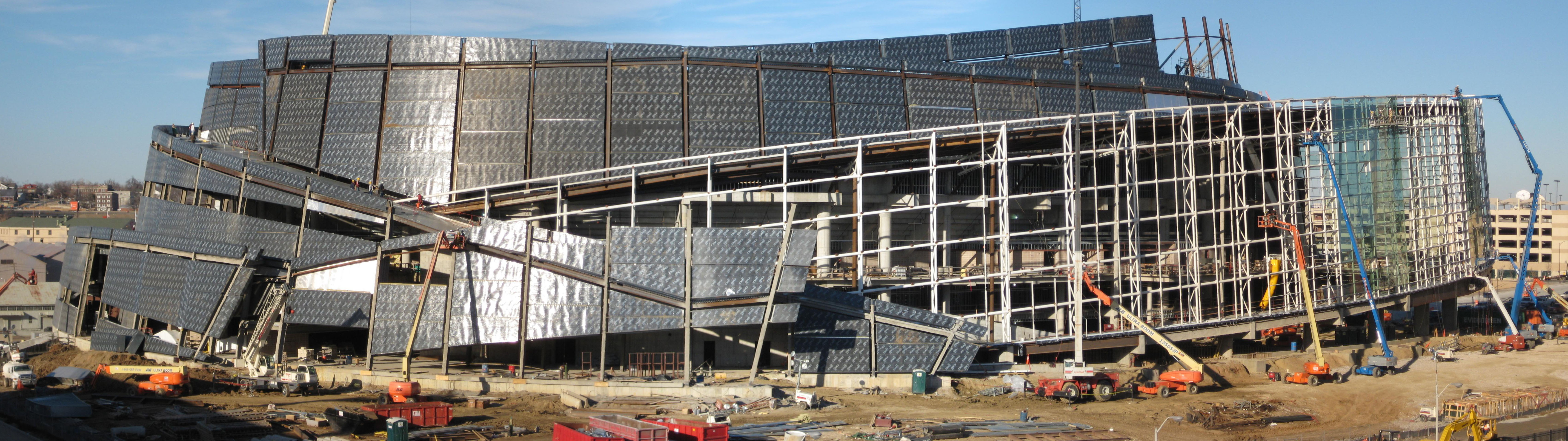 Panoramic view of the BOK Center under construction in Tulsa, Oklahoma.